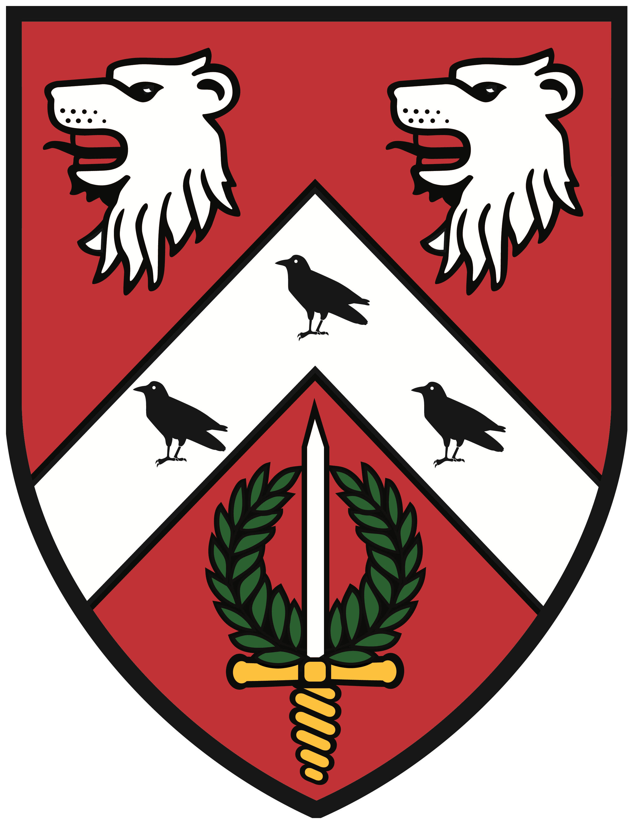 College crest - corrected